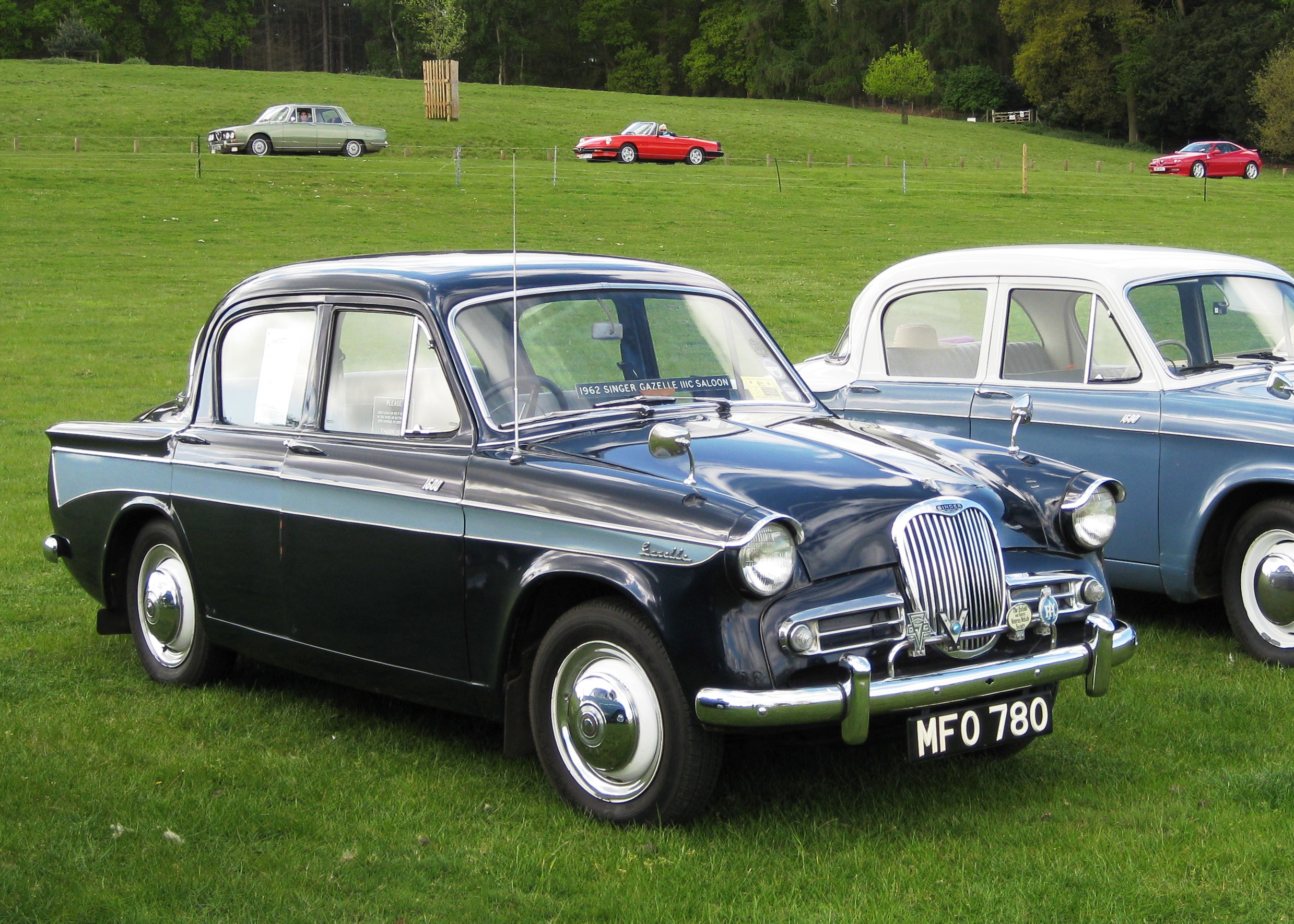 Singer Gazelle IIIC next to a contemporary Hillman Minx